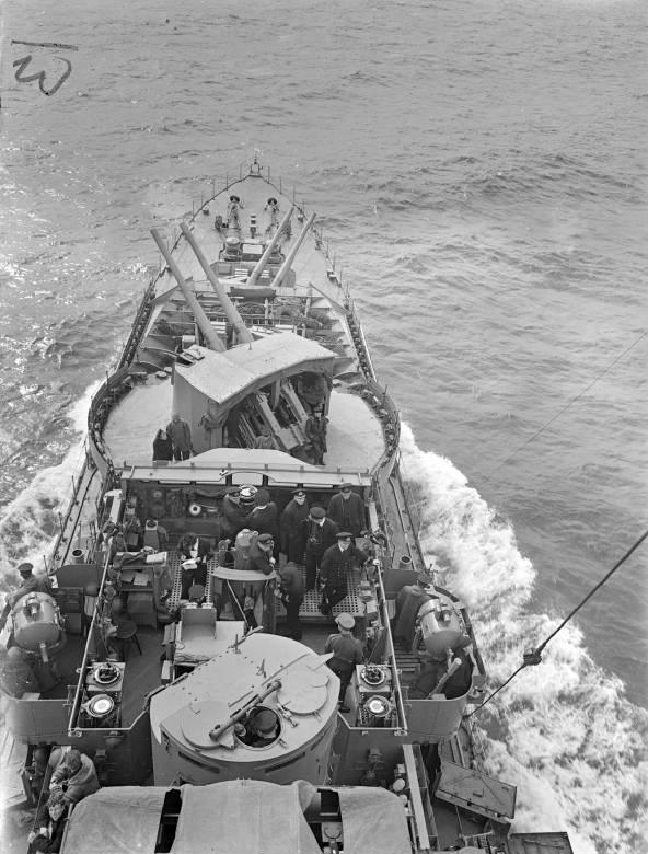 Captain Lord Louis Mountbatten and officers on the bridge of the destroyer HMS Kelvin. The two forward twin 4.7 inch gun mountings can be seen beyond the bridge.